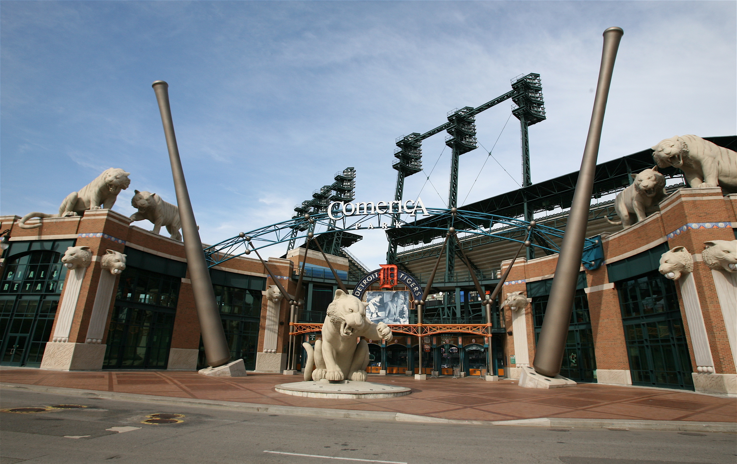 The west entrance of Comerica Park in Detroit, Michigan.